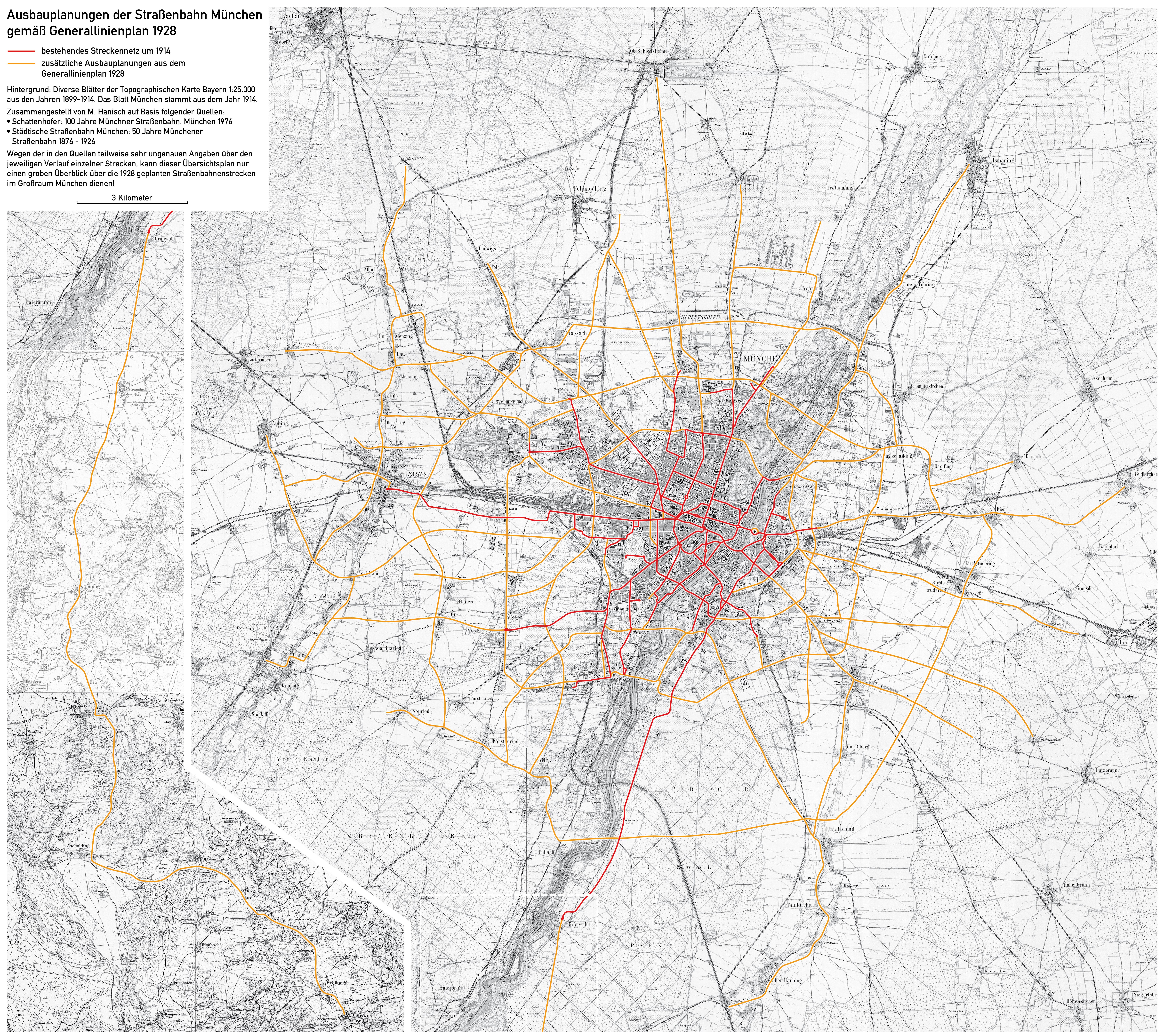 Map of the Munich tramway network draft in the Generallinienplan 1928 (with a topographic map of Bavaria with the scale 1:25.000 from the years 1899-1914 as background)